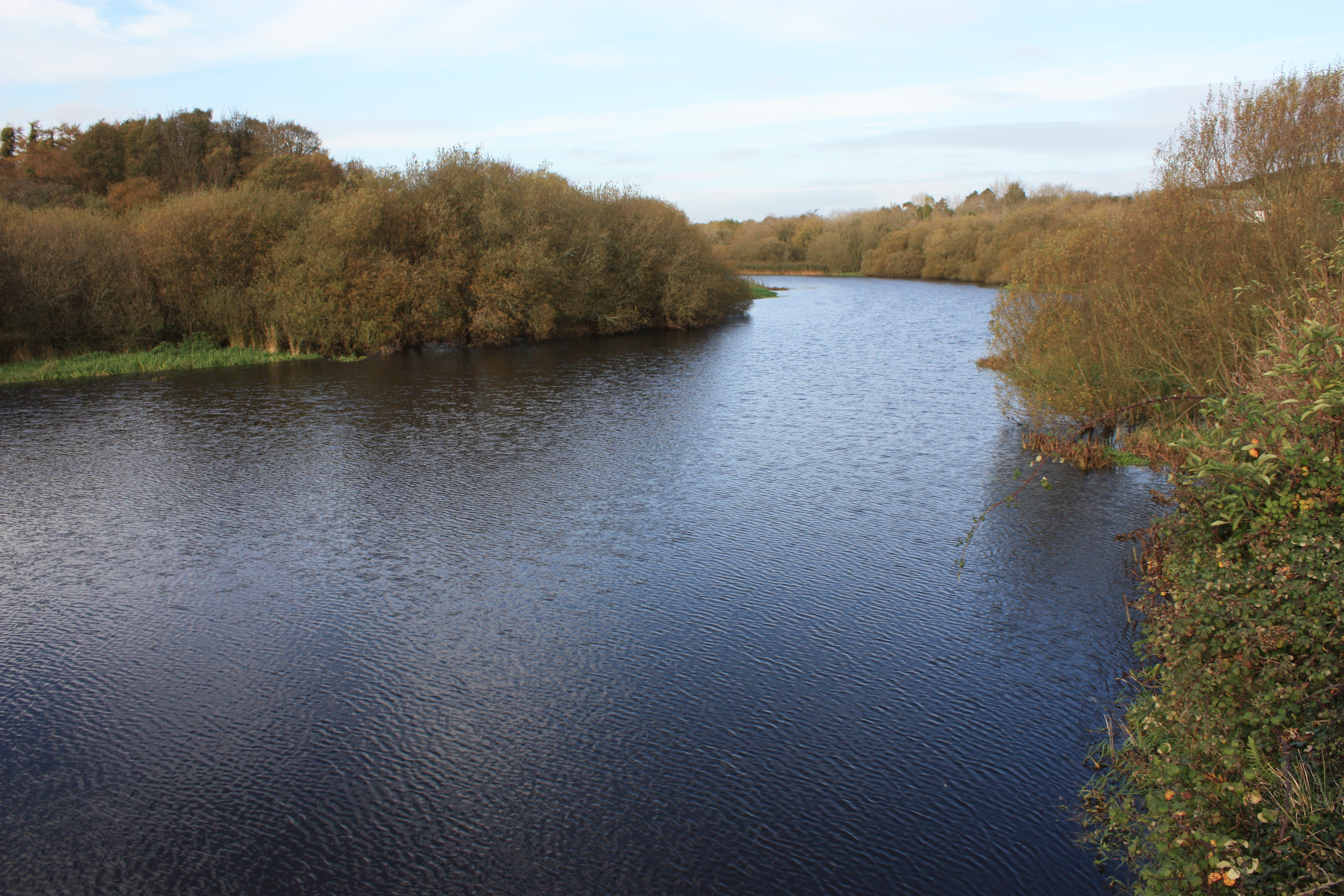 River Quoile (viewed from Quoile Quay), Quoile Pondage National Nature Reserve, Downpatrick, Northern Ireland, October 2009